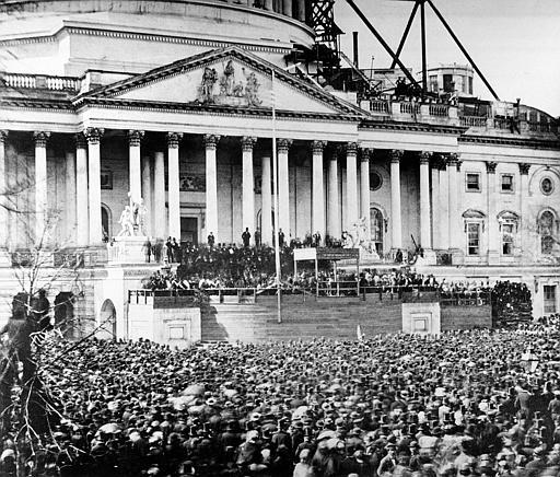 Abraham Lincoln's first inauguration which took place in Washington, DC. Lincoln stands underneath the covering at the center of the photograph. The scaffolding at upper right was being used in construction of the Capitol dome.